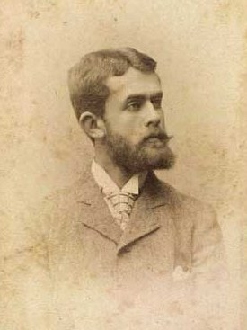 Charlie "Charles" Nicolai Grut Hansen (1867-1922), Danish farmer